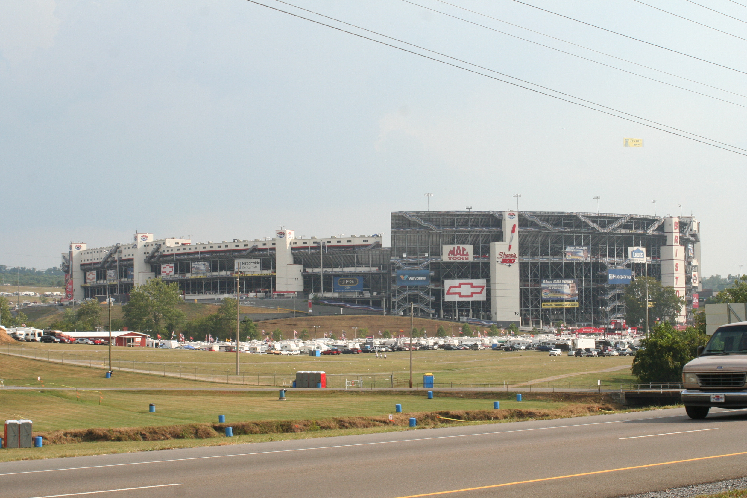 NASCAR track (circuit) Bristol Motor Speedway in August 2007